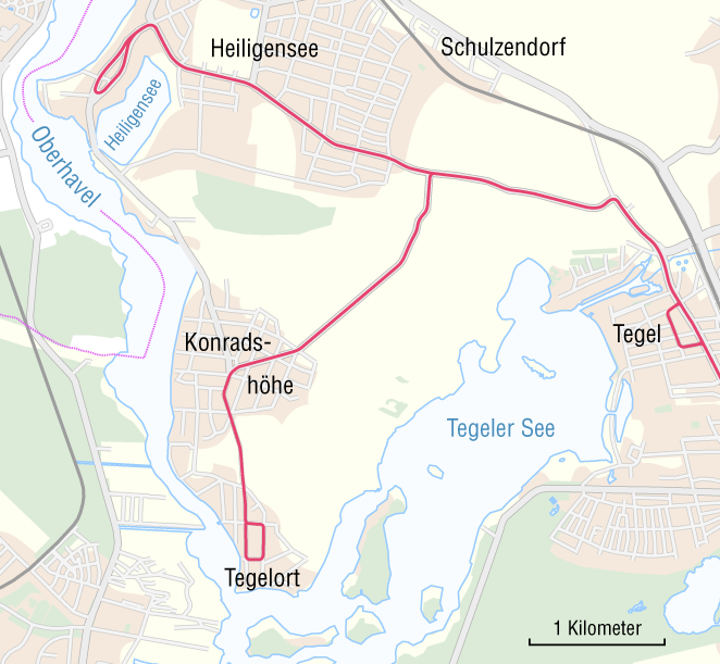 Map of the Heiligensee tramways in Berlin, Germany